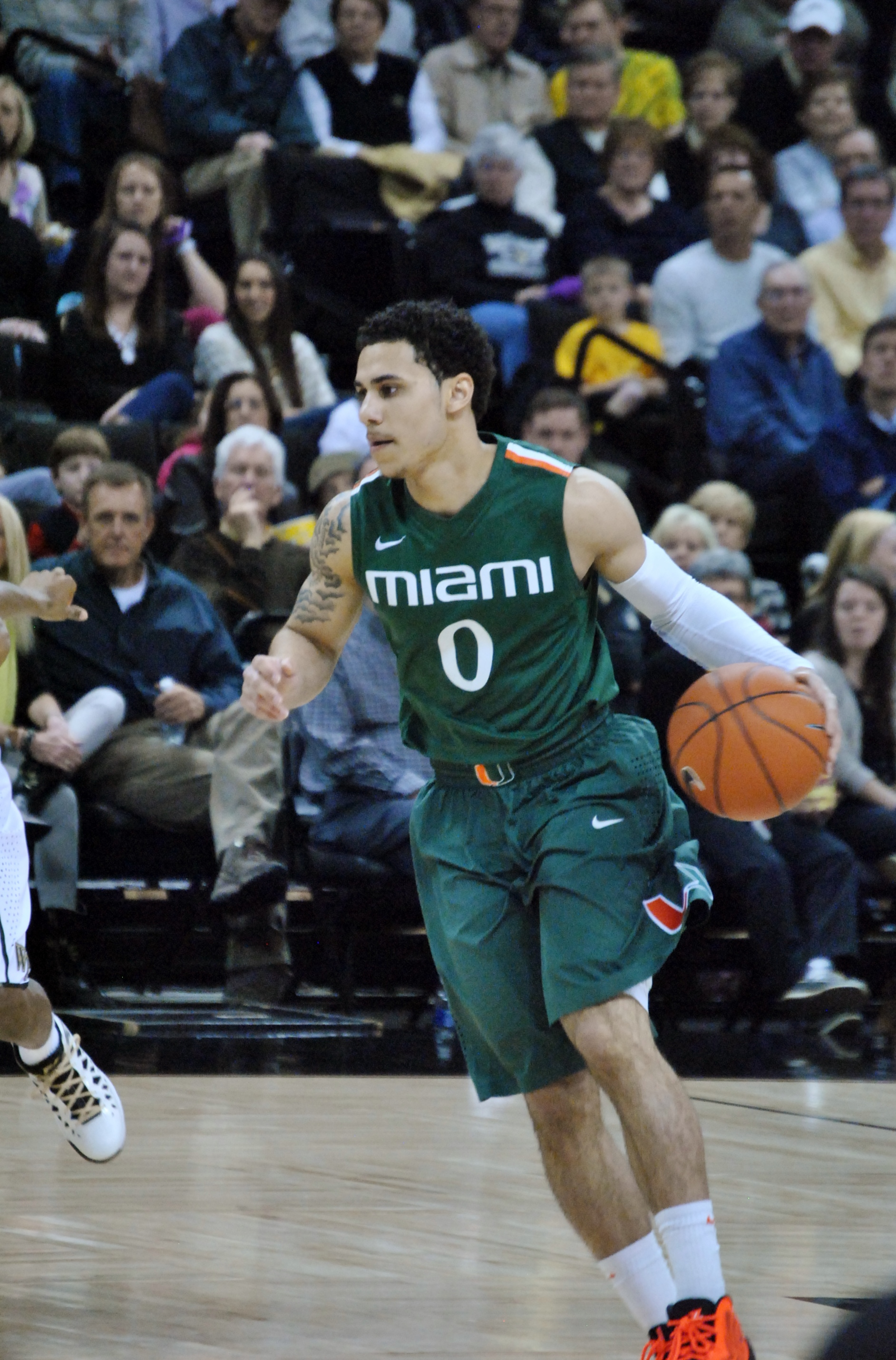 Shane Larkin playing for Miami Hurricanes